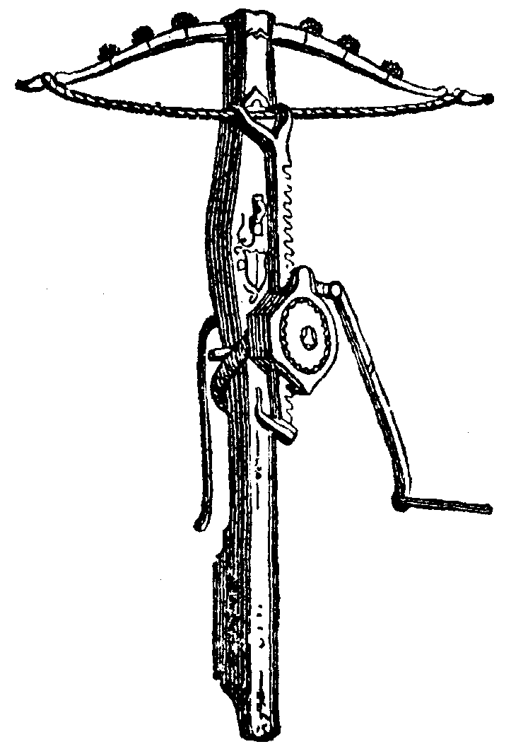 Crossbow